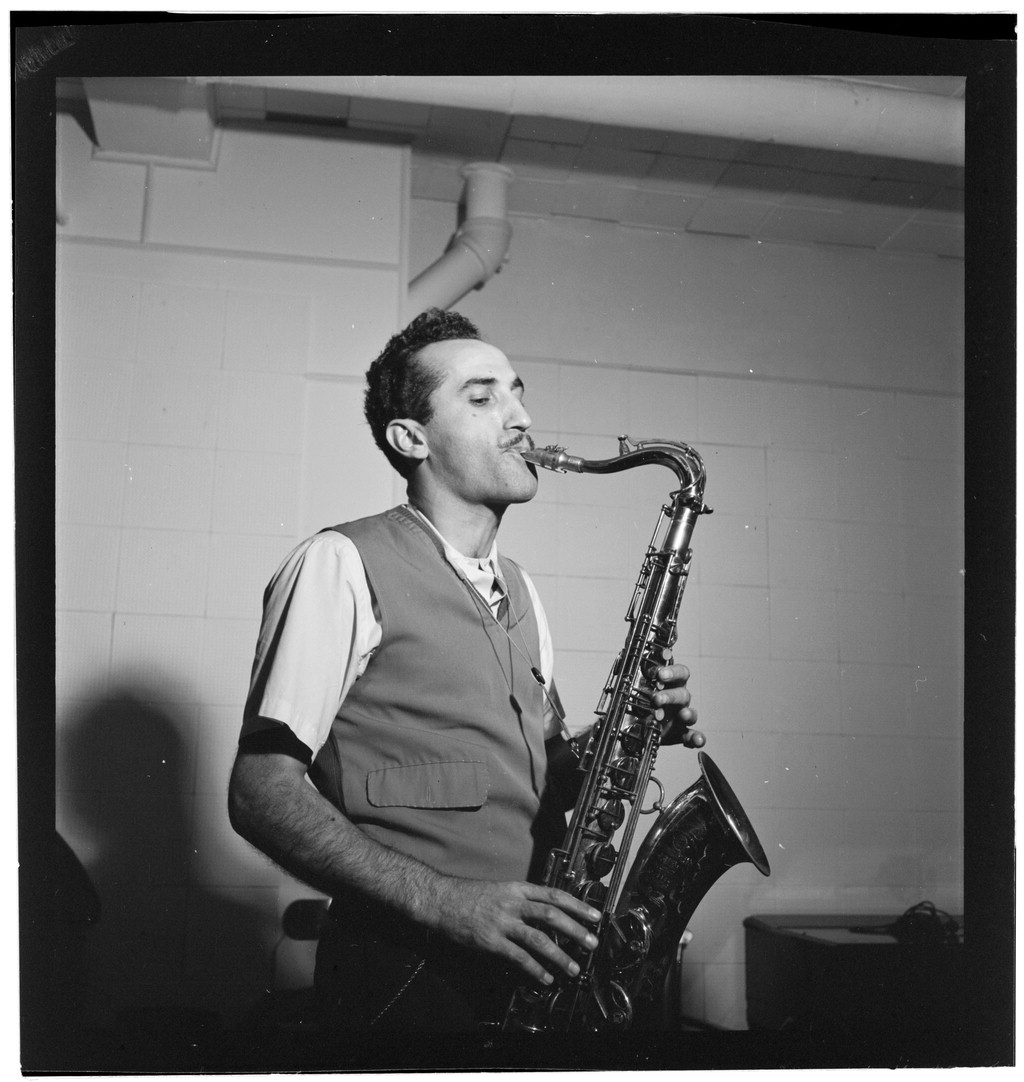 Charlie Ventura, National studio, New York, N.Y., ca. October 1946